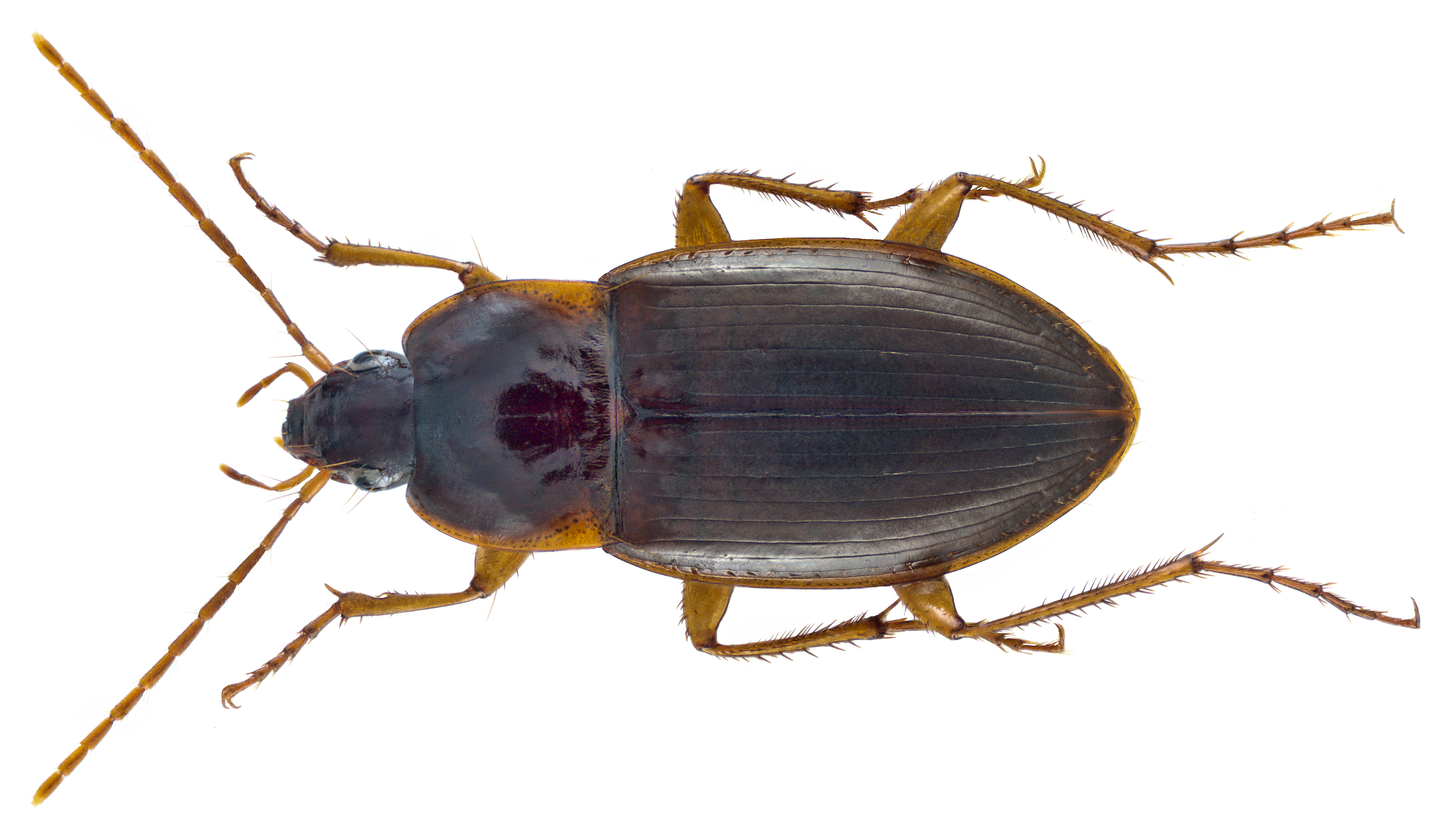 Family: Carabidae Size: 10,3 mm Location: Spain, Canary Islands, Gran Canaria, San Bartolomé, 1000m leg. J.Schoenfeld, 15.IV.2006; det. M.Baehr, 2008 Photo: U.Schmidt, 2014